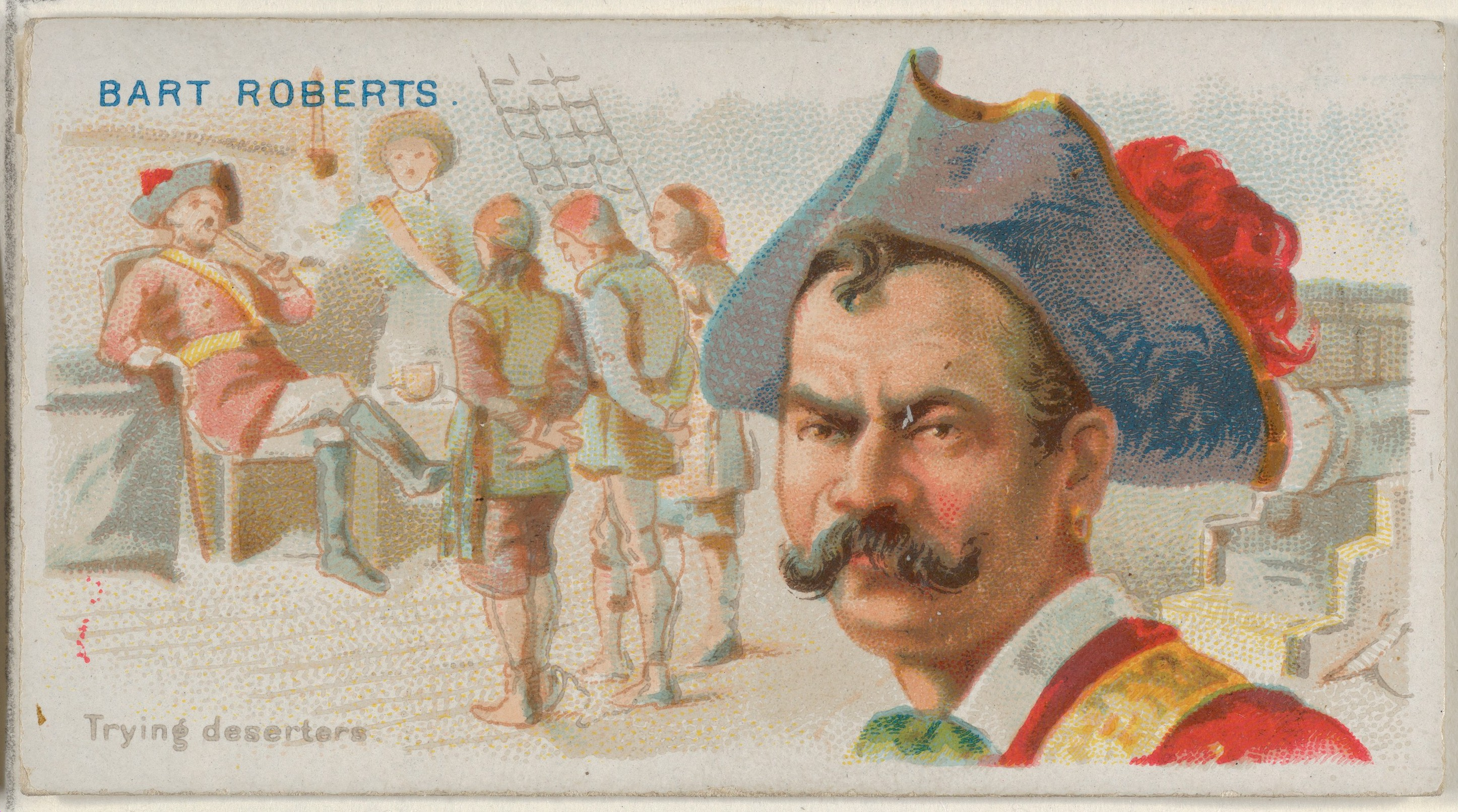 Print; Prints